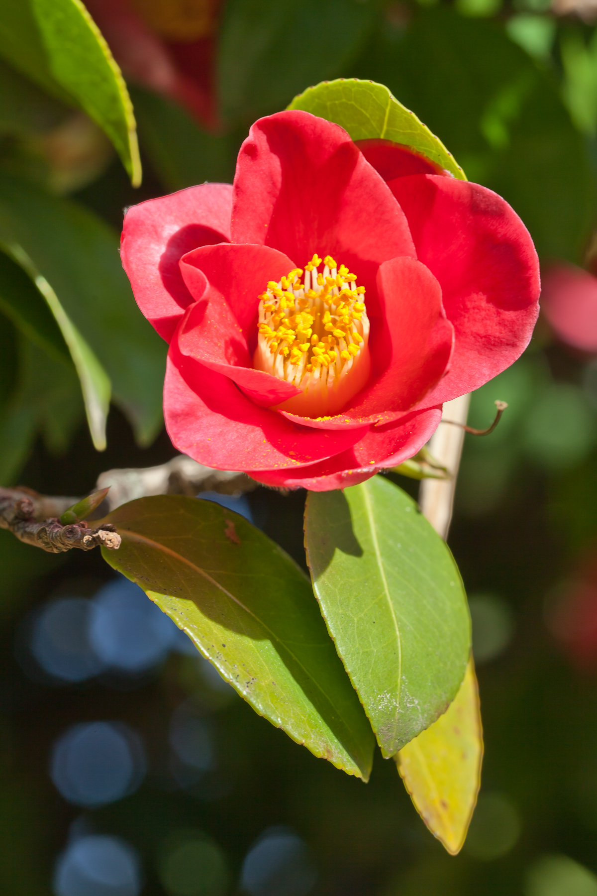 Camellia japonica. Universitary campus of Santiago de Compostela, Galicia (Spain)